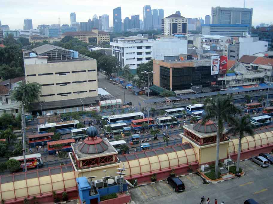 Blok M, the bus terminal is in the foreground, the city of Jakarta in the background.